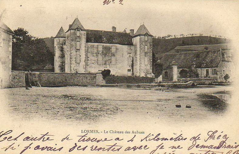 Chateau des Aubues, Lormes. Built circa 1420 by Guillaume de Montsaulnin, it remained in that family until the 20th century